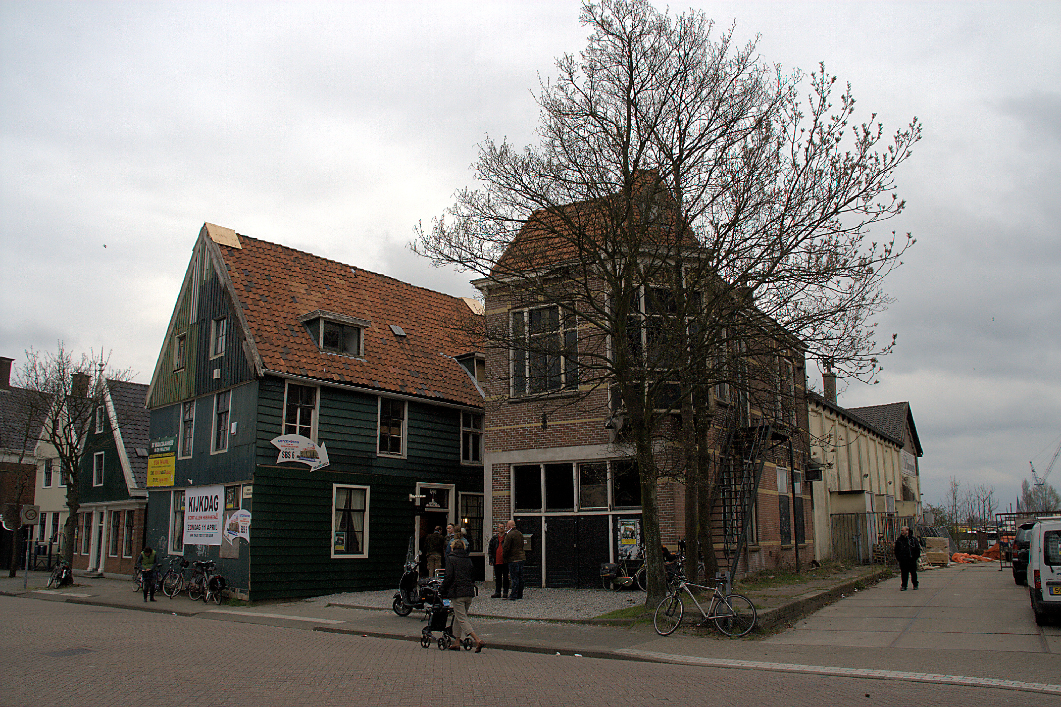 Koog aan de Zaan - building De Waakzaamheid